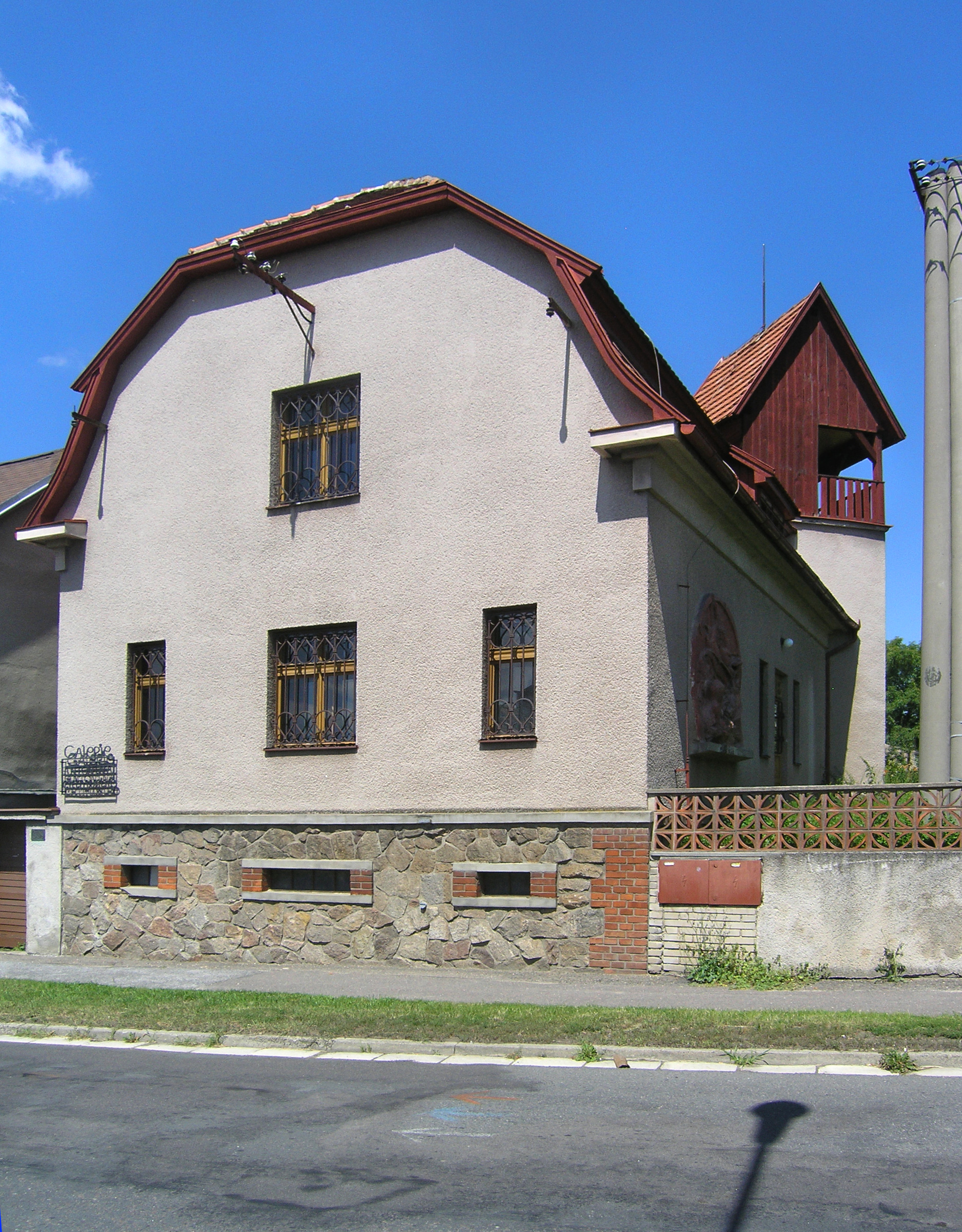 Bílek's villa in Ronov nad Doubravou, Czech Republic